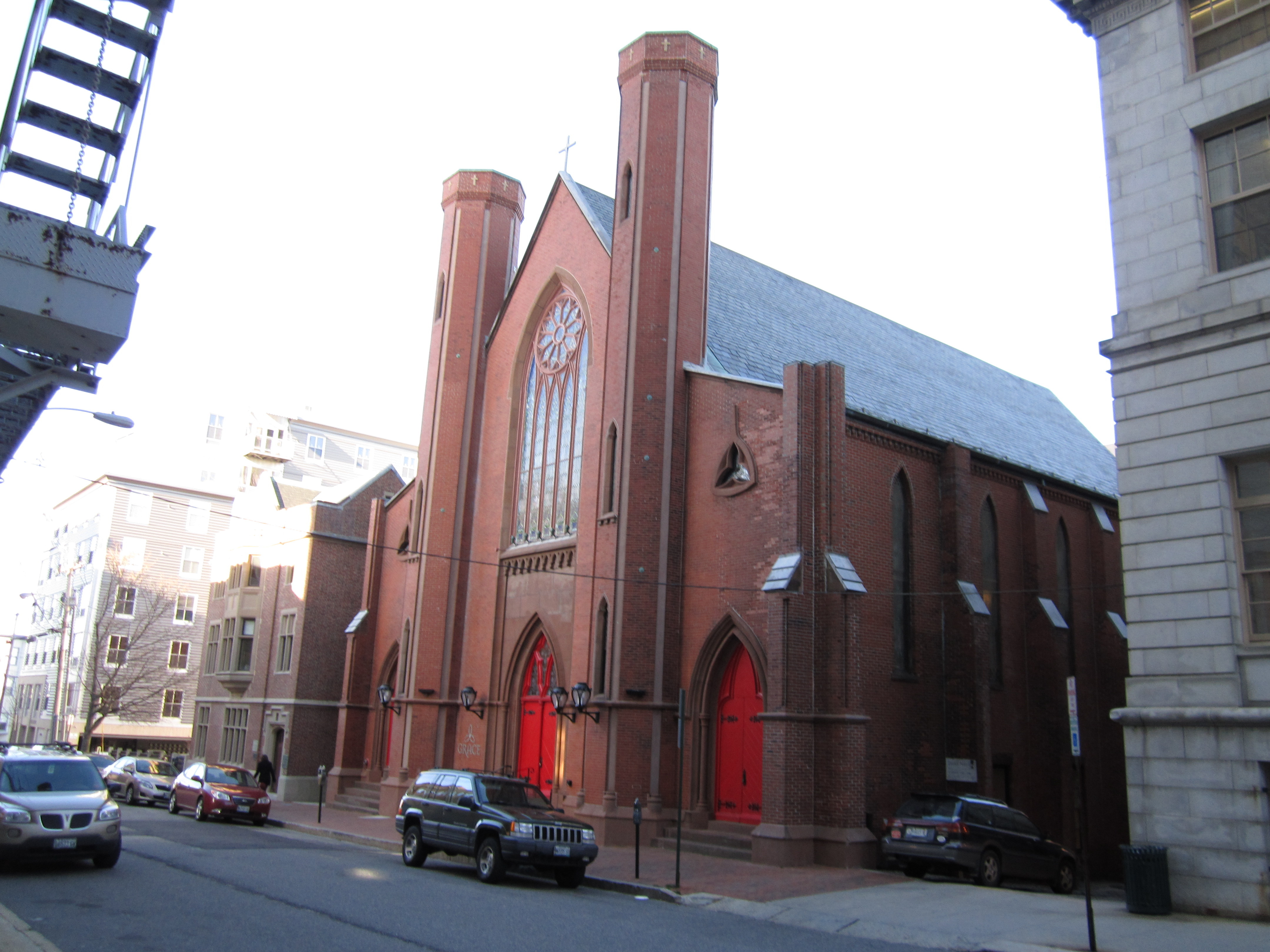 The Chestnut Street Methodist Church in downtown Portland, Maine.